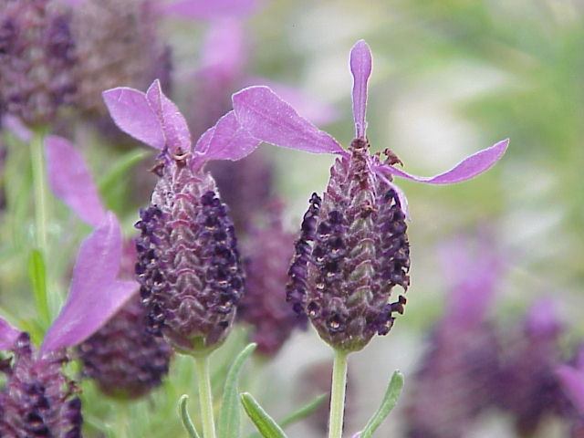 Species: Lavandula stoechas stoechas Family: Lamiaceae Image No. 1